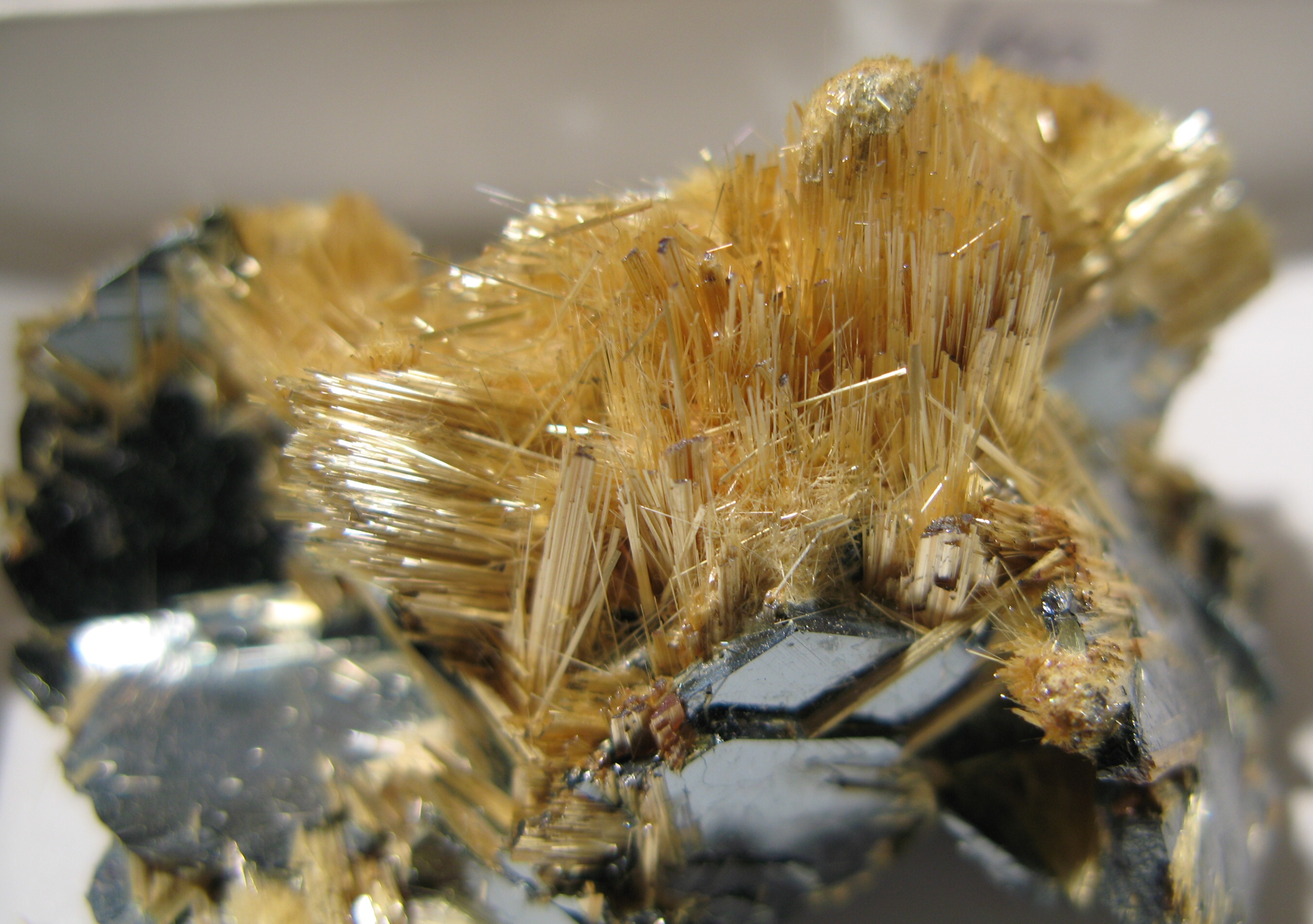 Rutile - picture taken on a mineral exchange